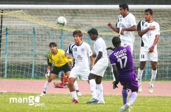 I League Daniel of Chirag United SC takes a freekick against Mahindra United at Salt Lake stadium in Kolkata 1 Feb 2009.jpg For high resolution version visit